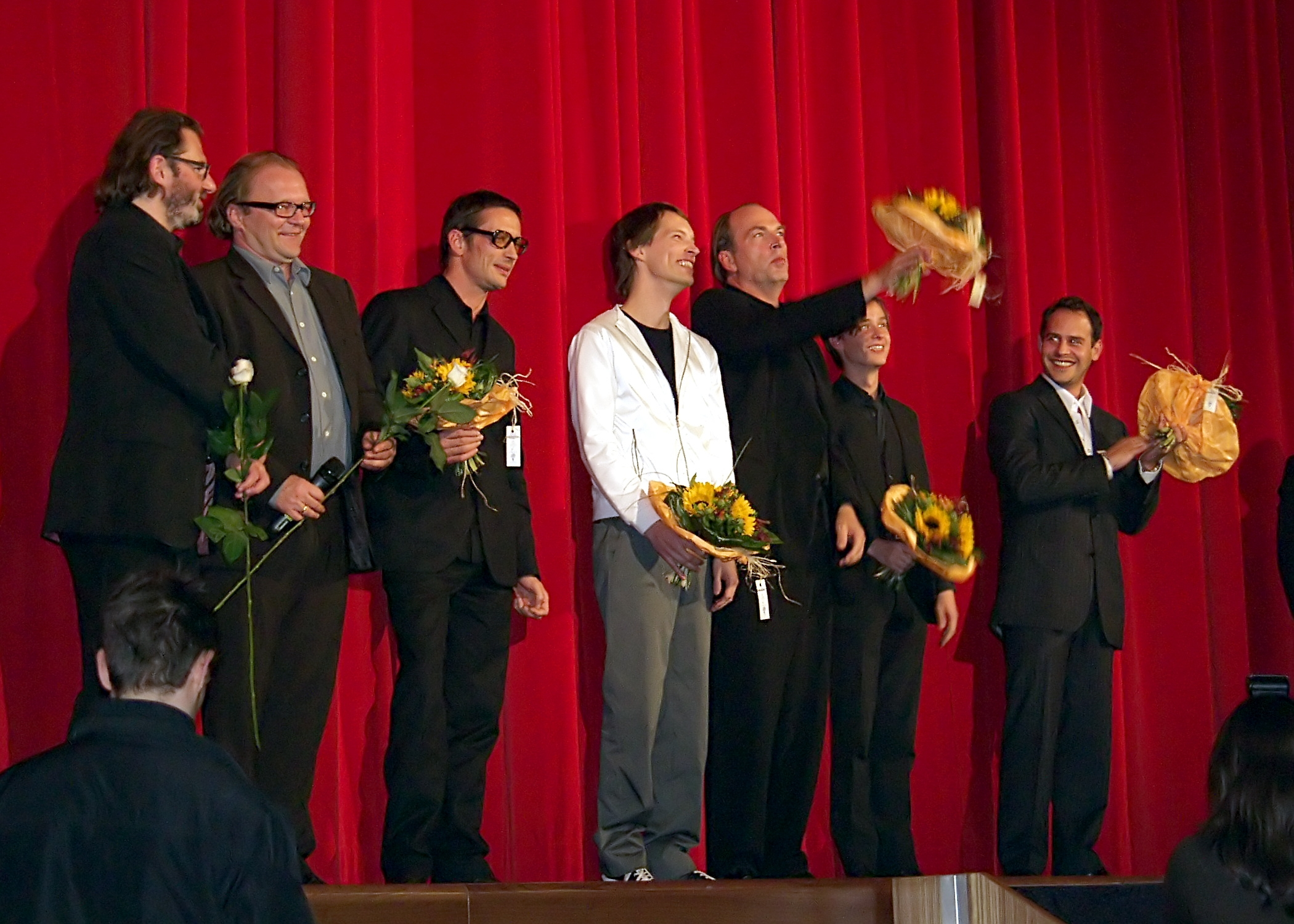 ?, ?, Oskar Roehler (Regie), Martin Weiß, Herbert Knaup, Tom Schilling and Moritz Bleibtreu on the stage of the movie theater "Lichtburg" in Essen, Germany after the Northrhine-Westphalia premiere of the movie "Agnes und seine Brüder"